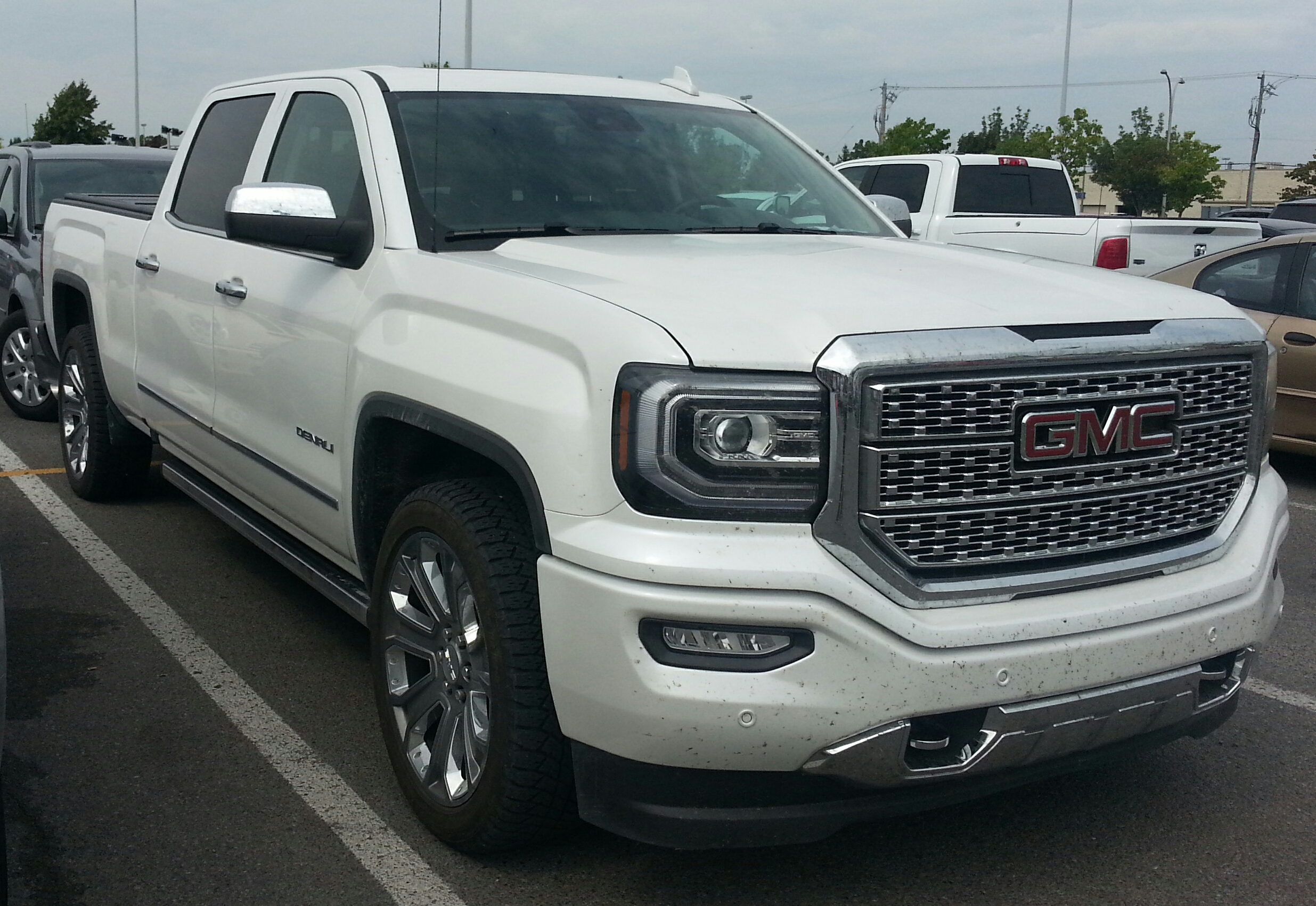 2016 GMC Sierra Denali photographed in Rosemère, Quebec, Canada.